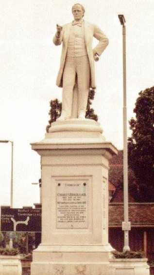 Statue of Charles Bradlaugh in Northampton